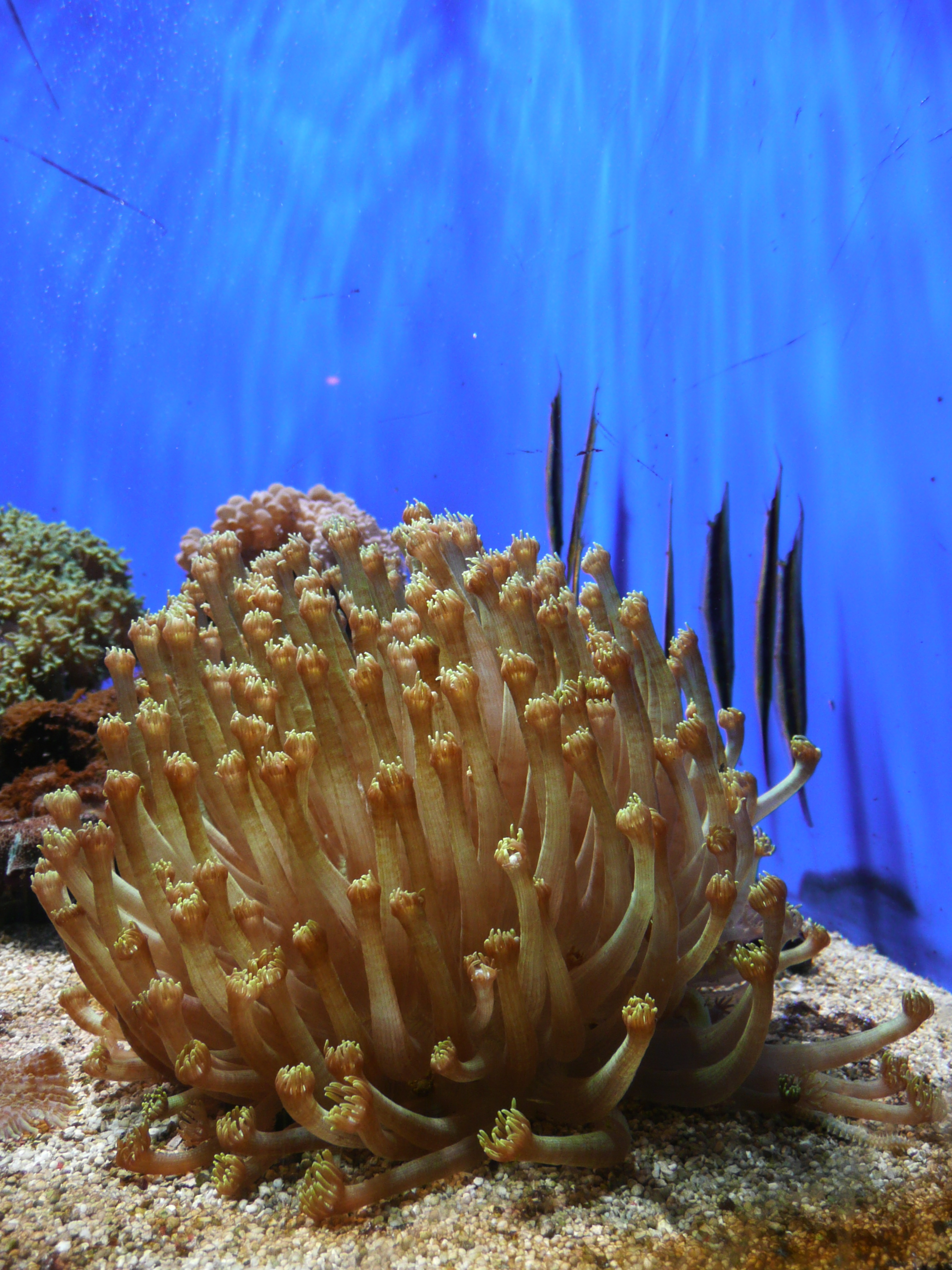 Images from London Zoo. Location: NW1 4RY